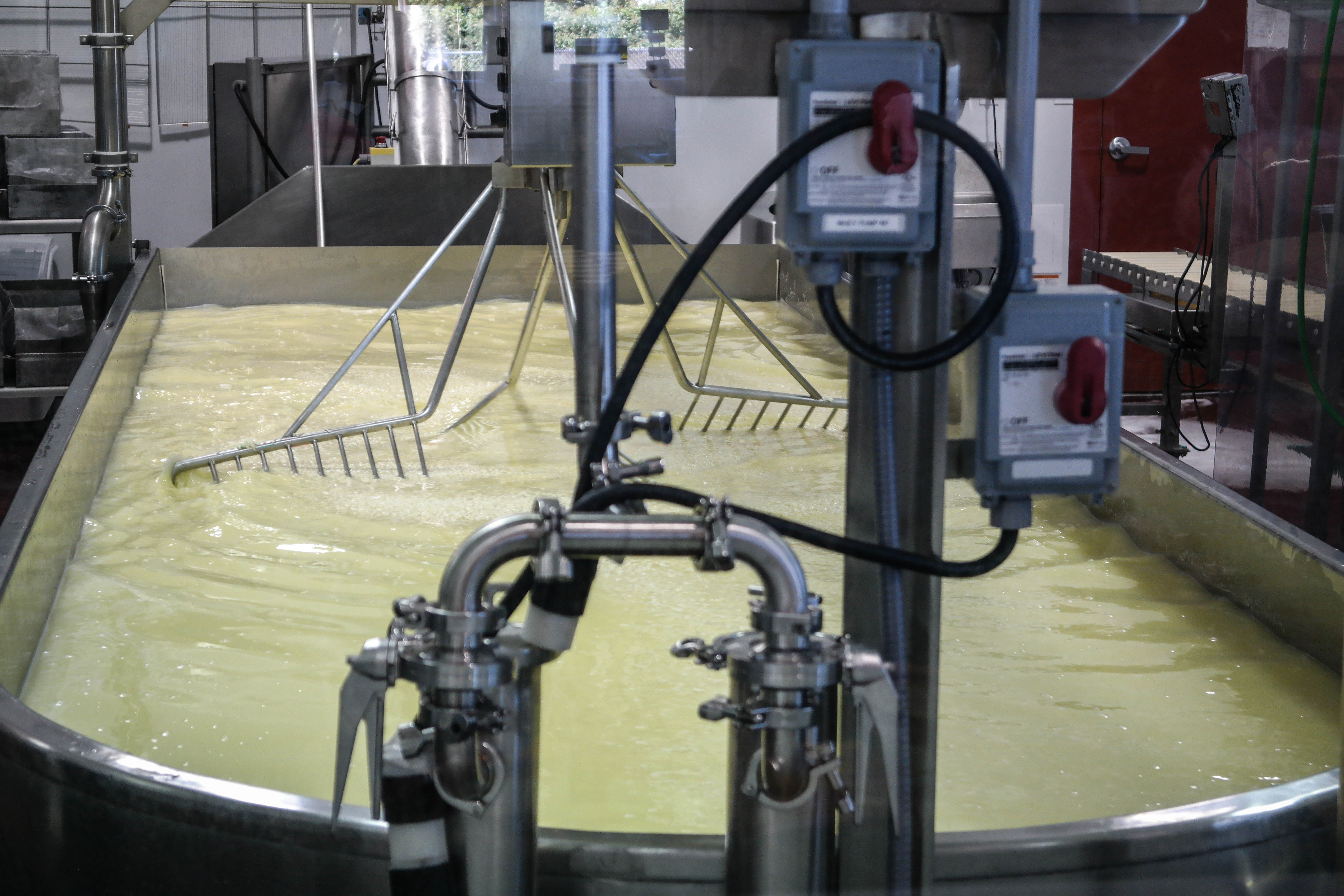 Milk is stirred after cultures and rennet are added to make cheese at Face Rock Creamery in Bandon, Oregon